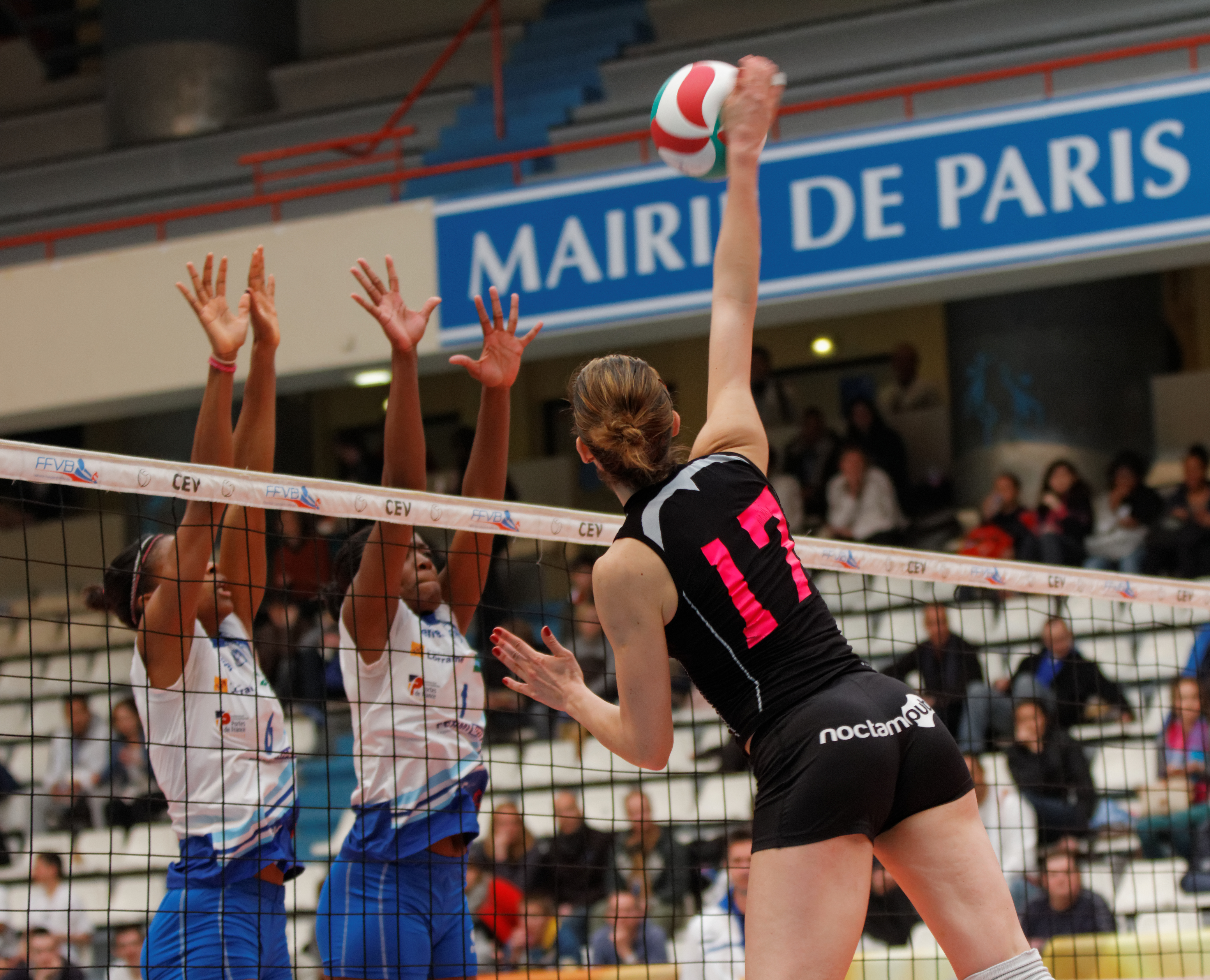 Final of the Volleyball French Cup, Vannes Volley-Ball - Terville Florange Olympique Club, March 30, 2013.